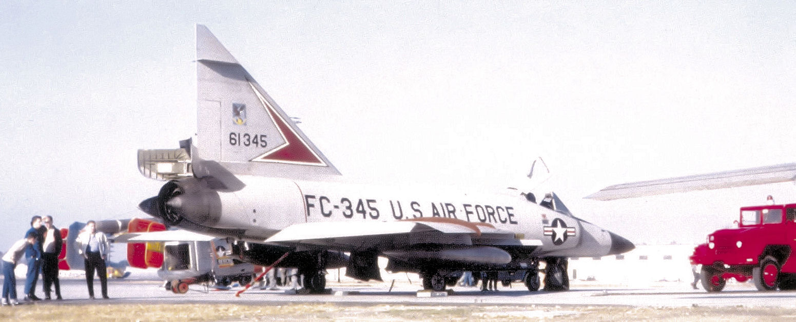 76th Fighter-Interceptor Squadron Convair F-102A-75-CO Delta Dagger 56-1345 Boston Air Defense Sector, Westover AFB, Massachusetts, October 1962 56-1345 retired to MASDC as FJ0181 Apr 7, 1971